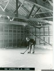 Qu'Appelle Hockey Rink, 1903